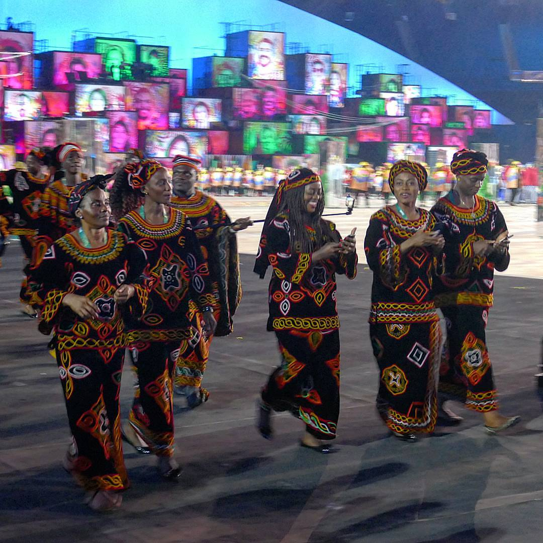 Delegation of Cameroon at the 2016 Summer Olympics opening ceremony in Rio de Janeiro.